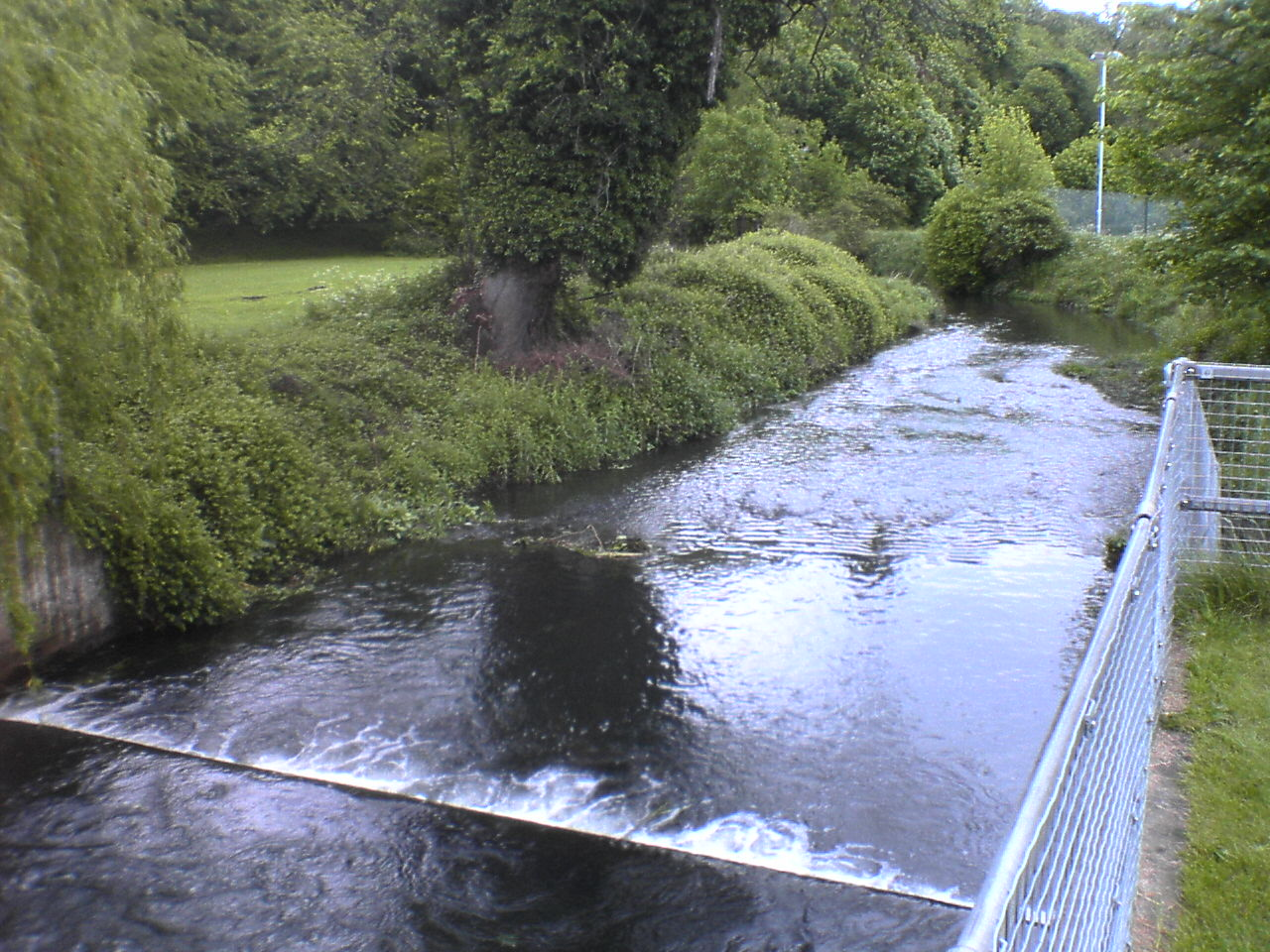 River Beane Hertford, Jamsta 21:37, 29 October 2006 (UTC)